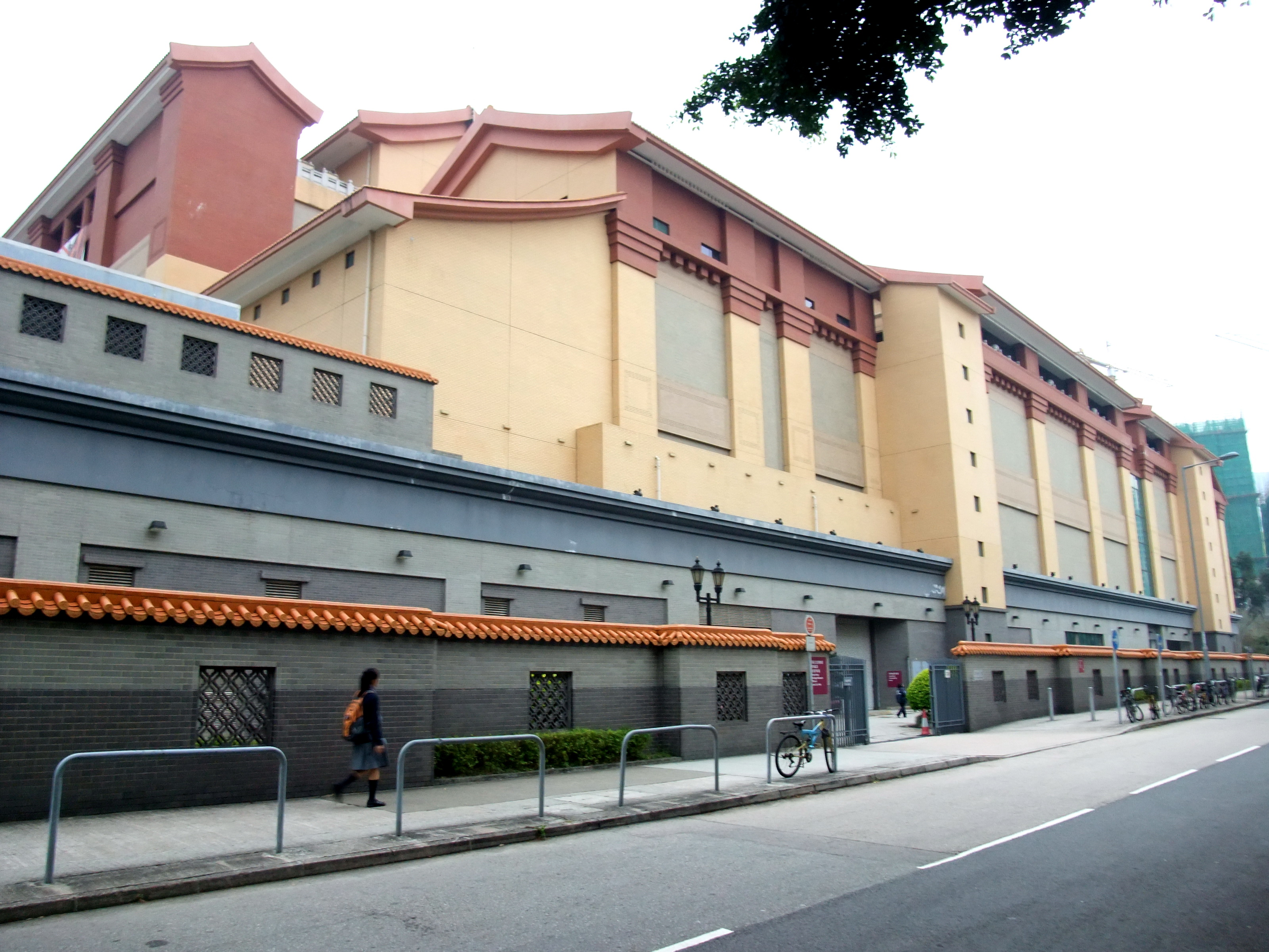 Staff entrance of the Hong Kong Heritage Museum, Shatin, Hong Kong.